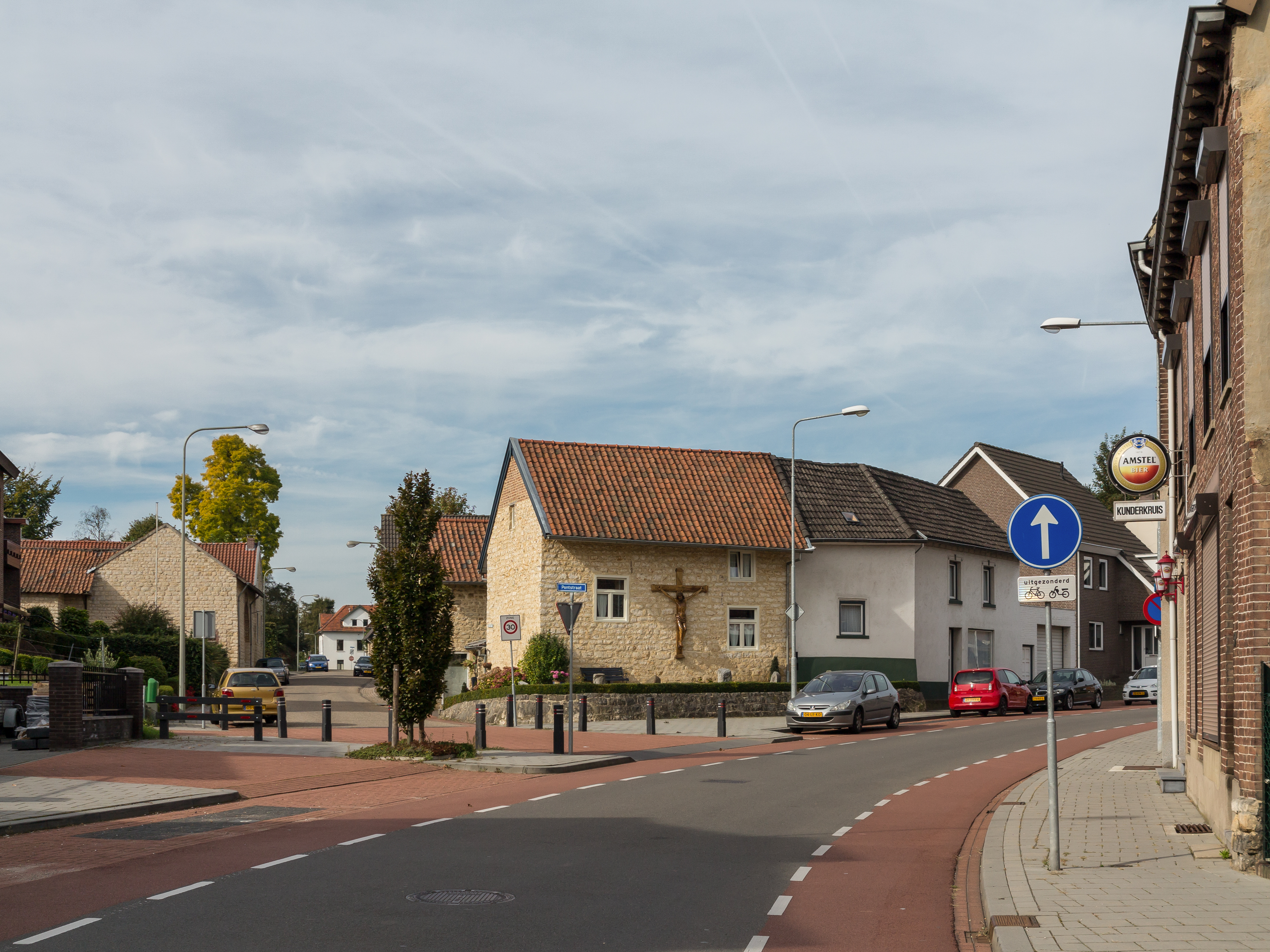 Kunrade, view to a street: Heerlerweg-Pontstraat